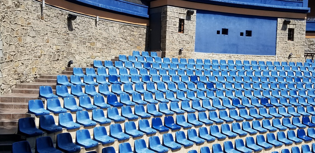 Open-air cinema, Plovdiv